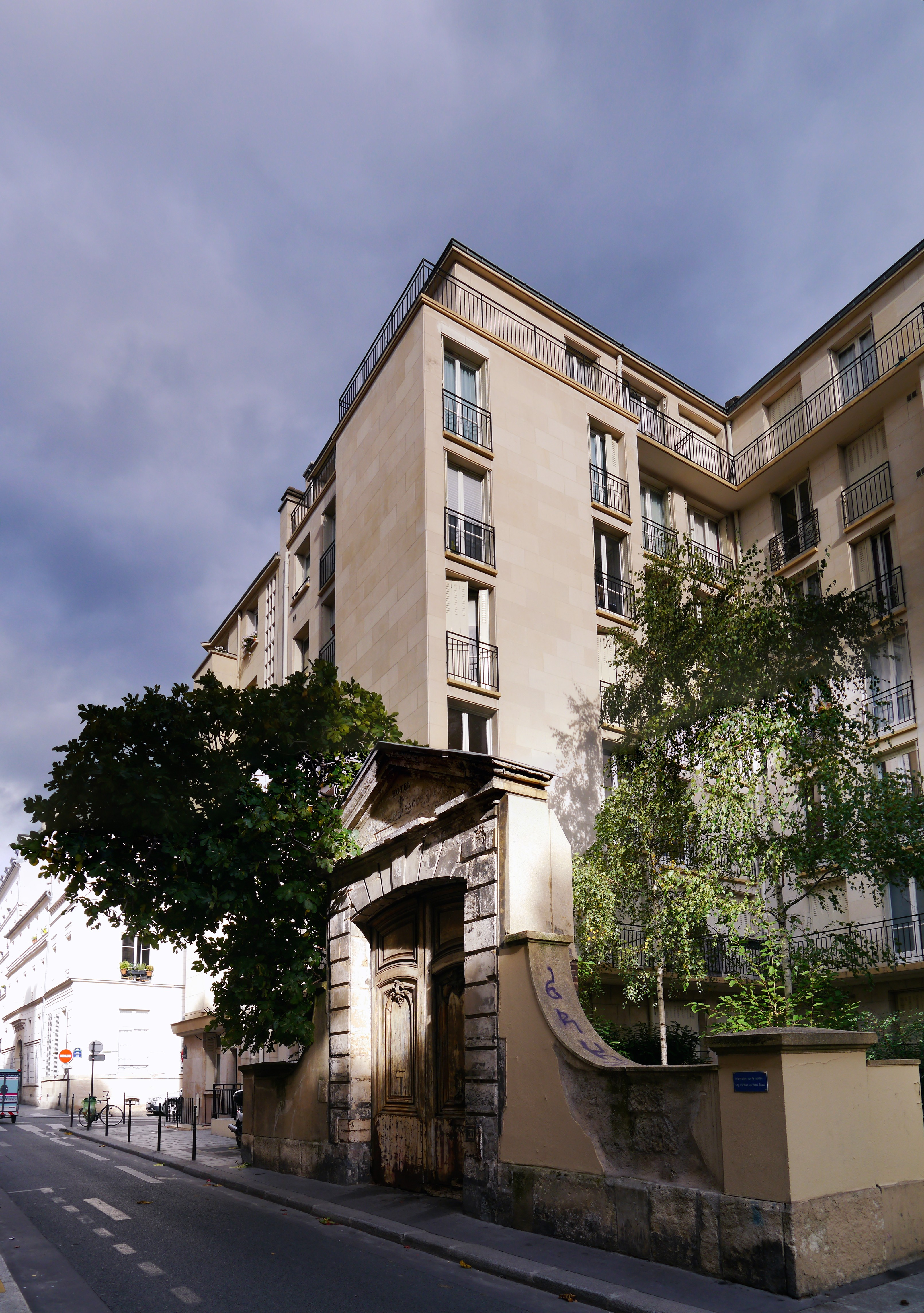 6 rue Beautreillis, Paris 4th arrondissement, France. Portal of the former hôtel Raoul.